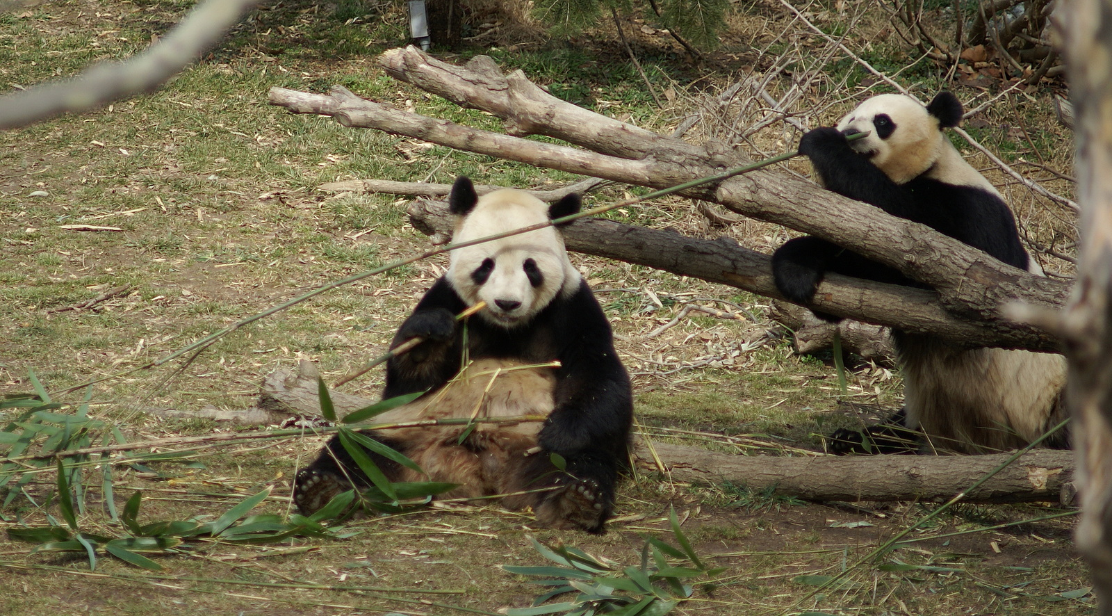 Photo by author, taken at the National Zoo in Washington, D.C. Commons:Category:Ailuropoda melanoleuca